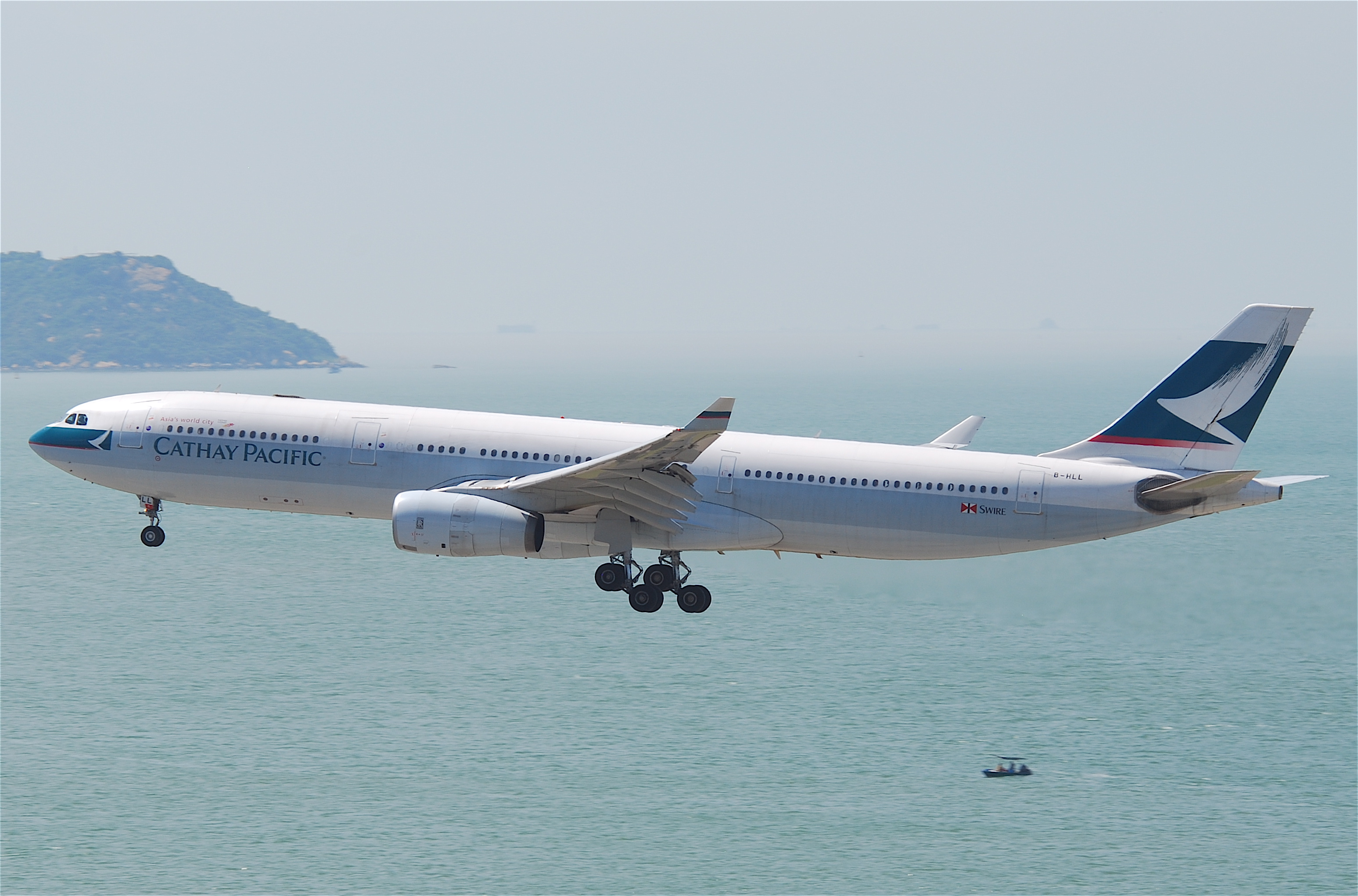 Cathay Pacific Airbus A330-342; B-HLL@HKG;31.07.2011/614pm